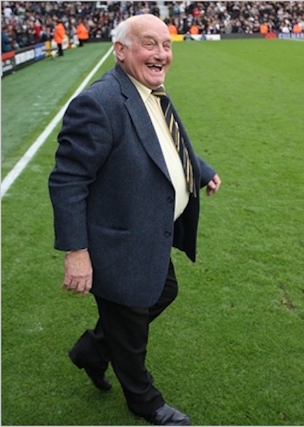 Photo taken by me